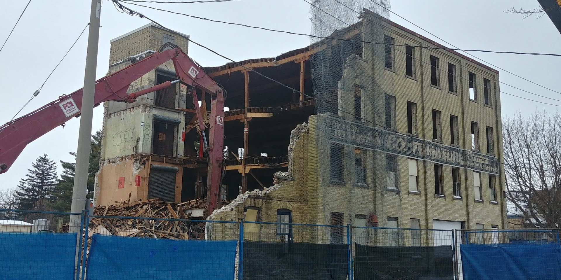 View of the 152 Shanley Street factory in Kitchener, Ontario as it is being demolished in January 2020. The tearaway shows the structural destabilization of the largely wooden beam-supported interior.